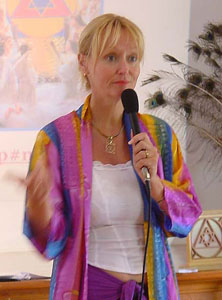 Jasmuheen (foto Wouter Hagens)